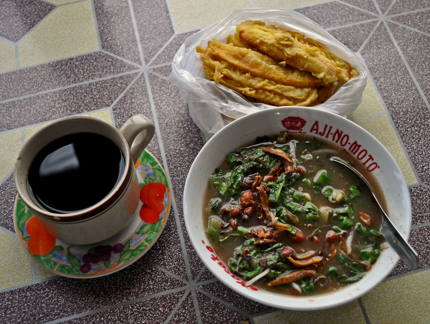 Spicy porridge; Sambas special cullinary